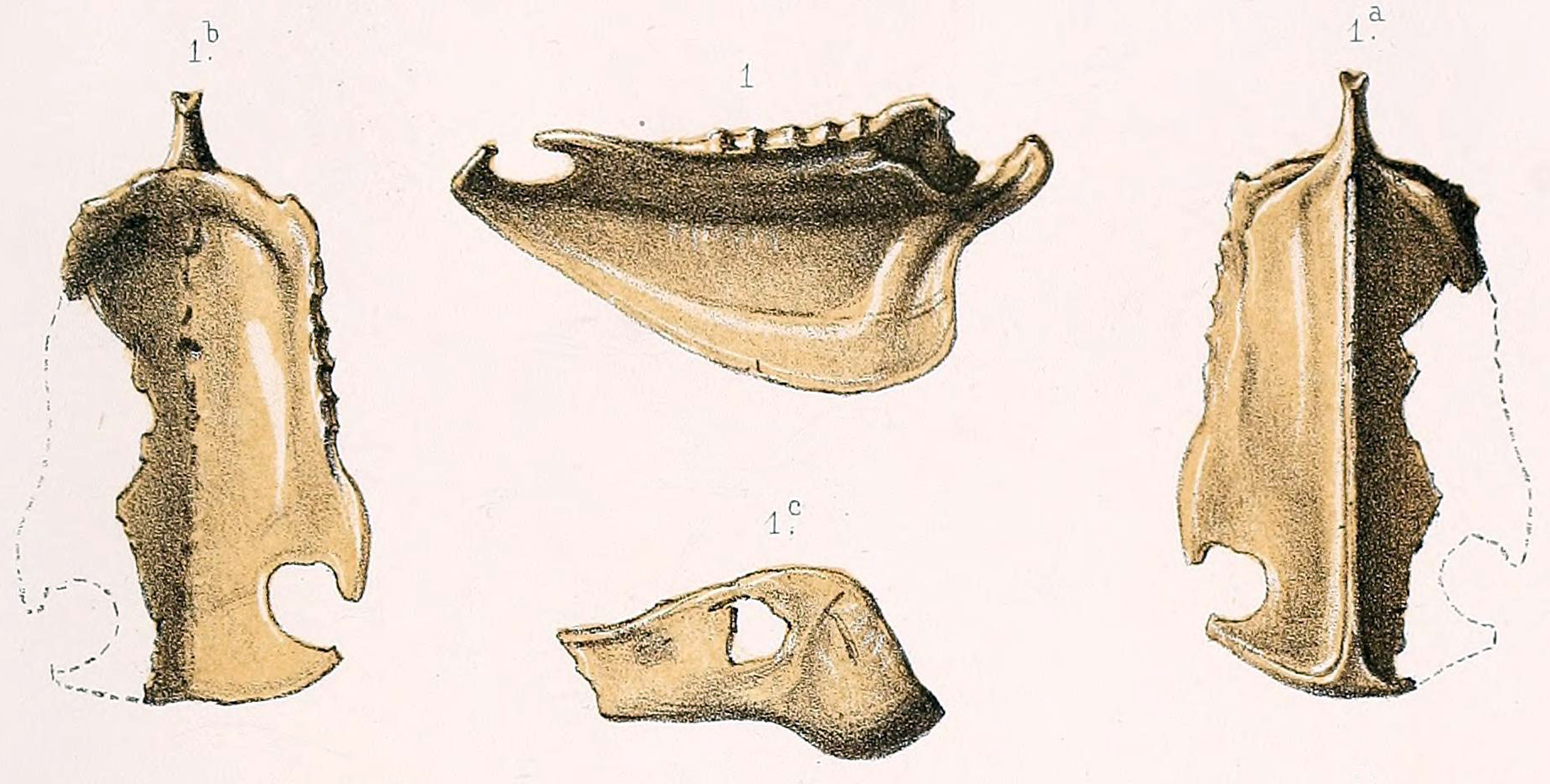 Sternum and mandible of Psittacula exsul, extracted from the female holotype specimen.